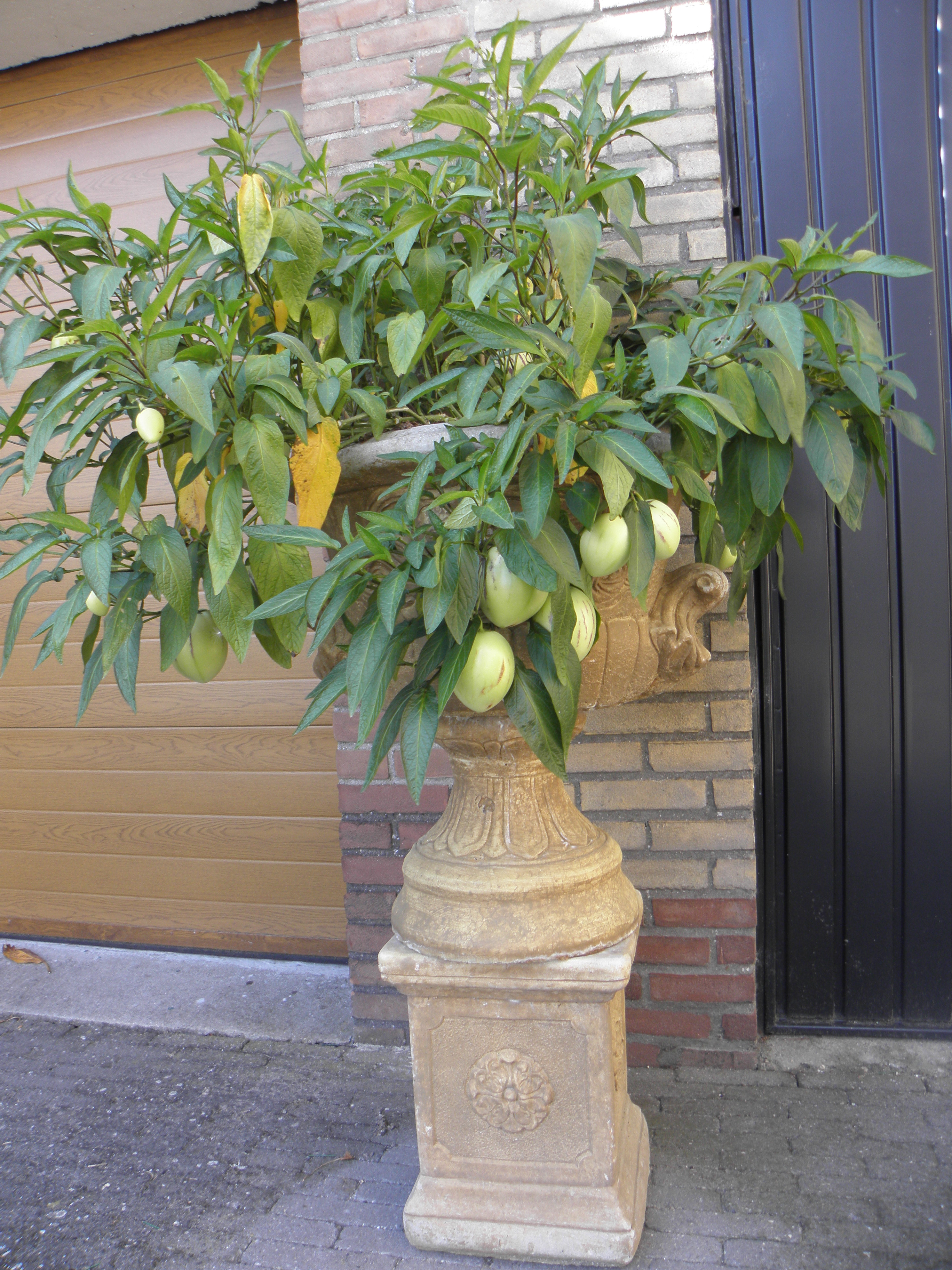 sweet pepino